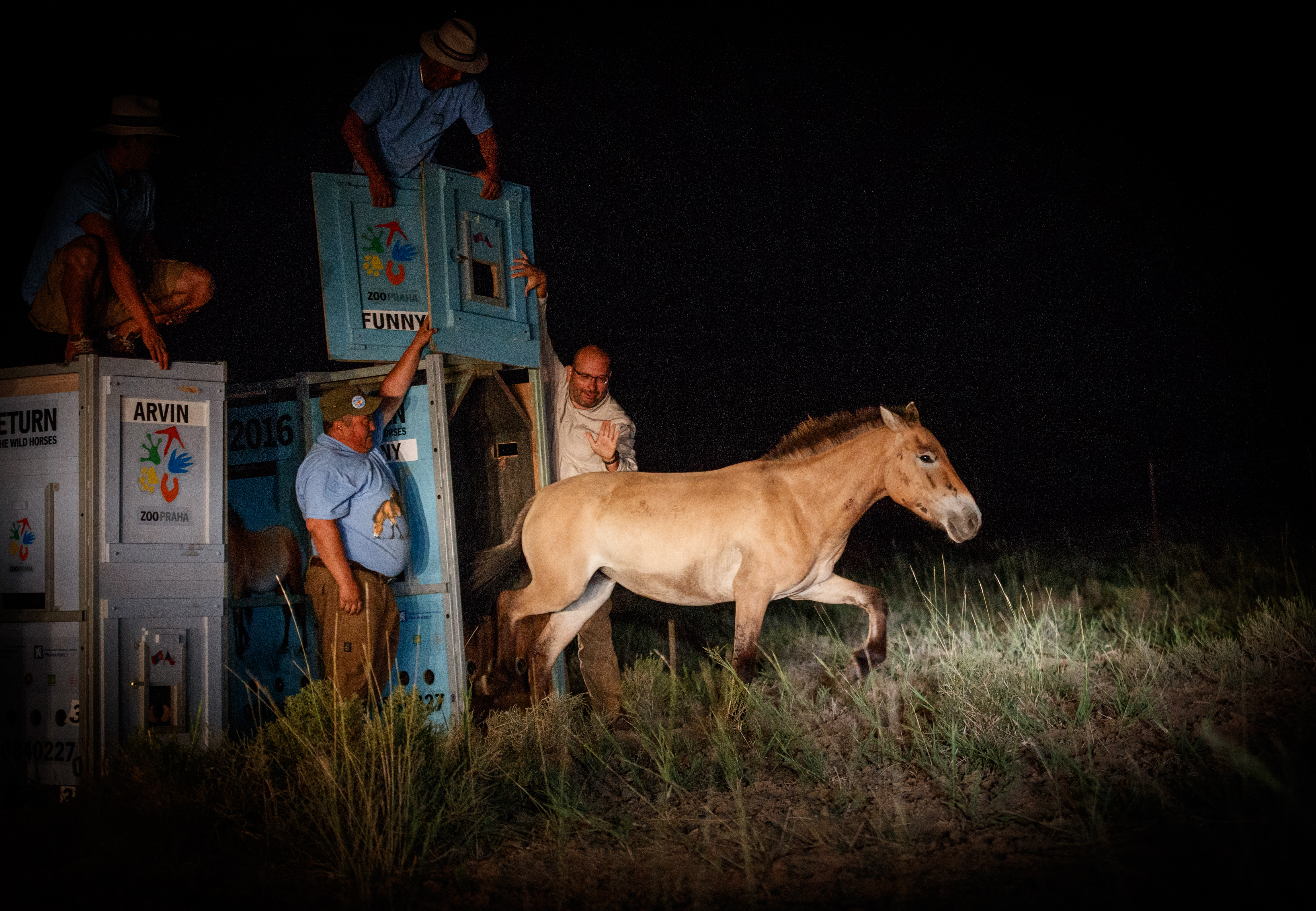 Sixth year of Return of the Wild Horses Project 5